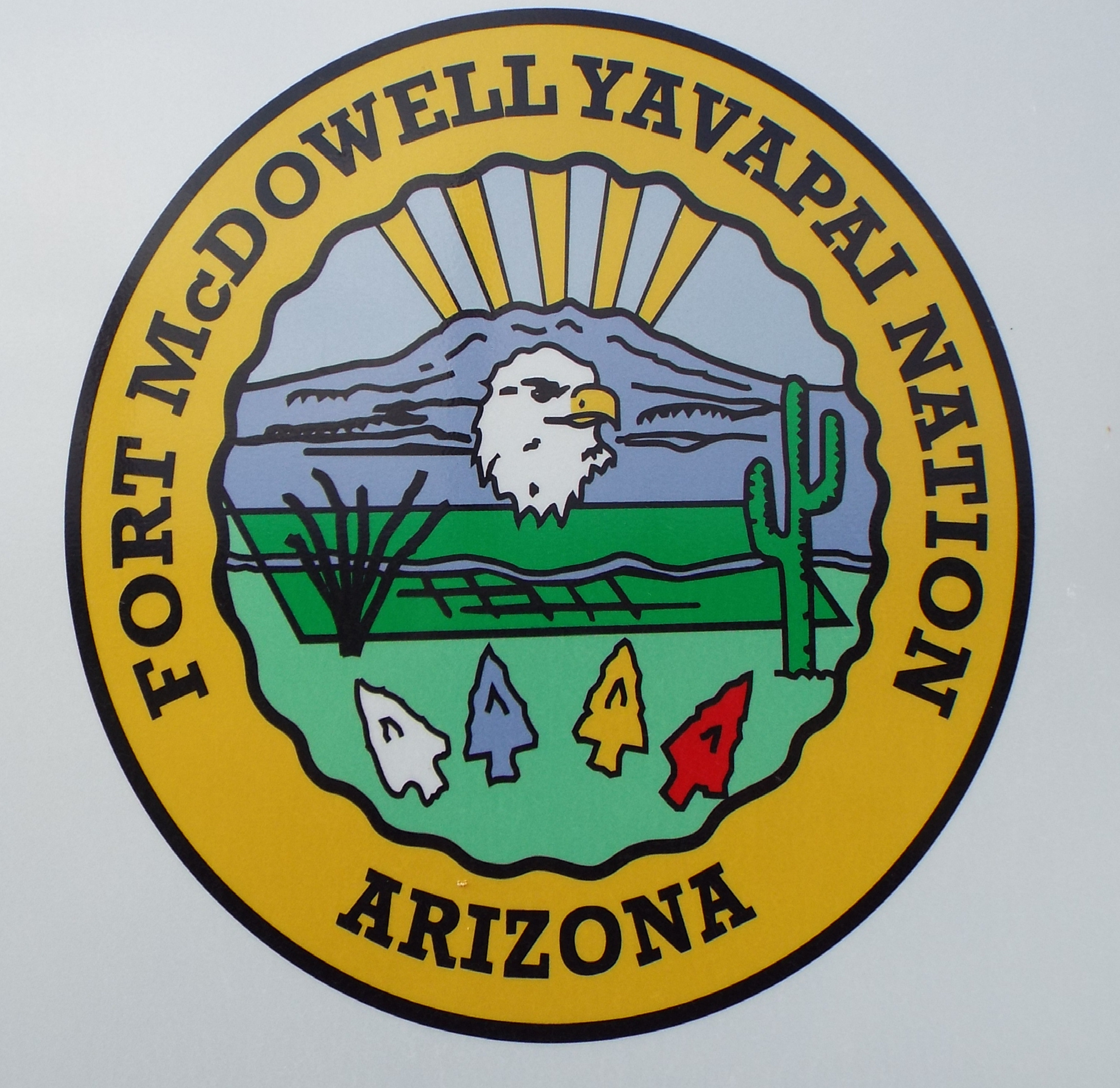 Welcome to Fort McDowell Yavapai Nation sign